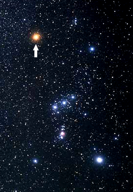 Position of Betelgeuse in the constellation of Orion